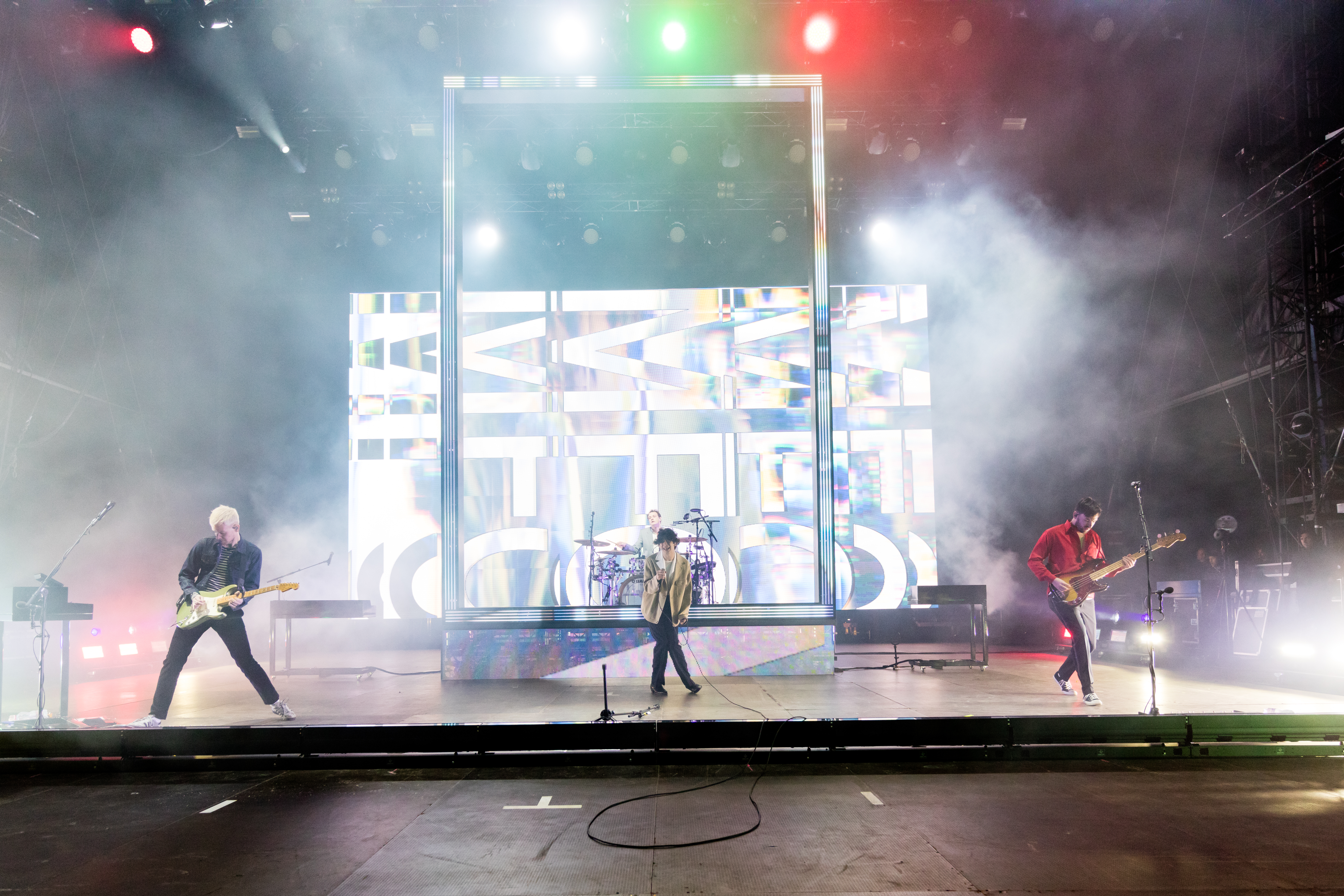 The 1975 during Rock am Ring ( at Nürburgring, Rheinland-Pfalz, Germany on 2019-06-07, Photo: Sven Mandel Promotion by Live Nation (